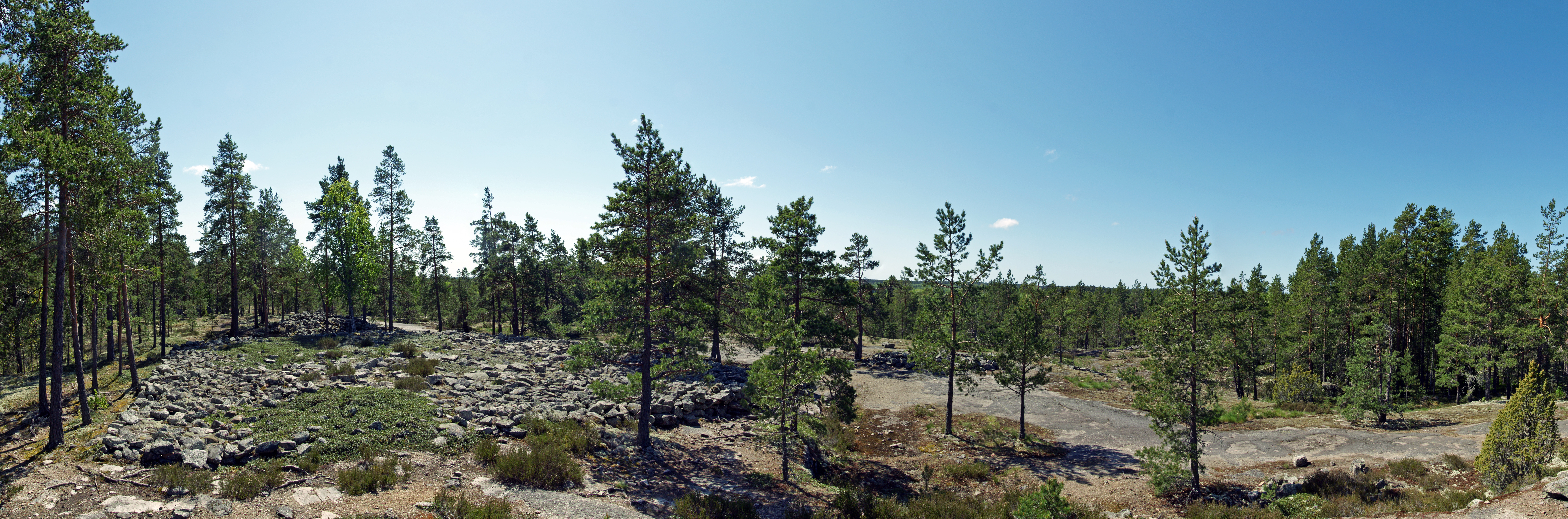 Panorama from Sammallahdenmäki bronze age burial site in Lappi, Finland.